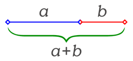 1-The golden ratio (phi) represented as a line divided into two segments a and b, such that the entire line is to the longer a segment as the a segment is to the shorter b segment: φ = (a+b) : a = a : b.